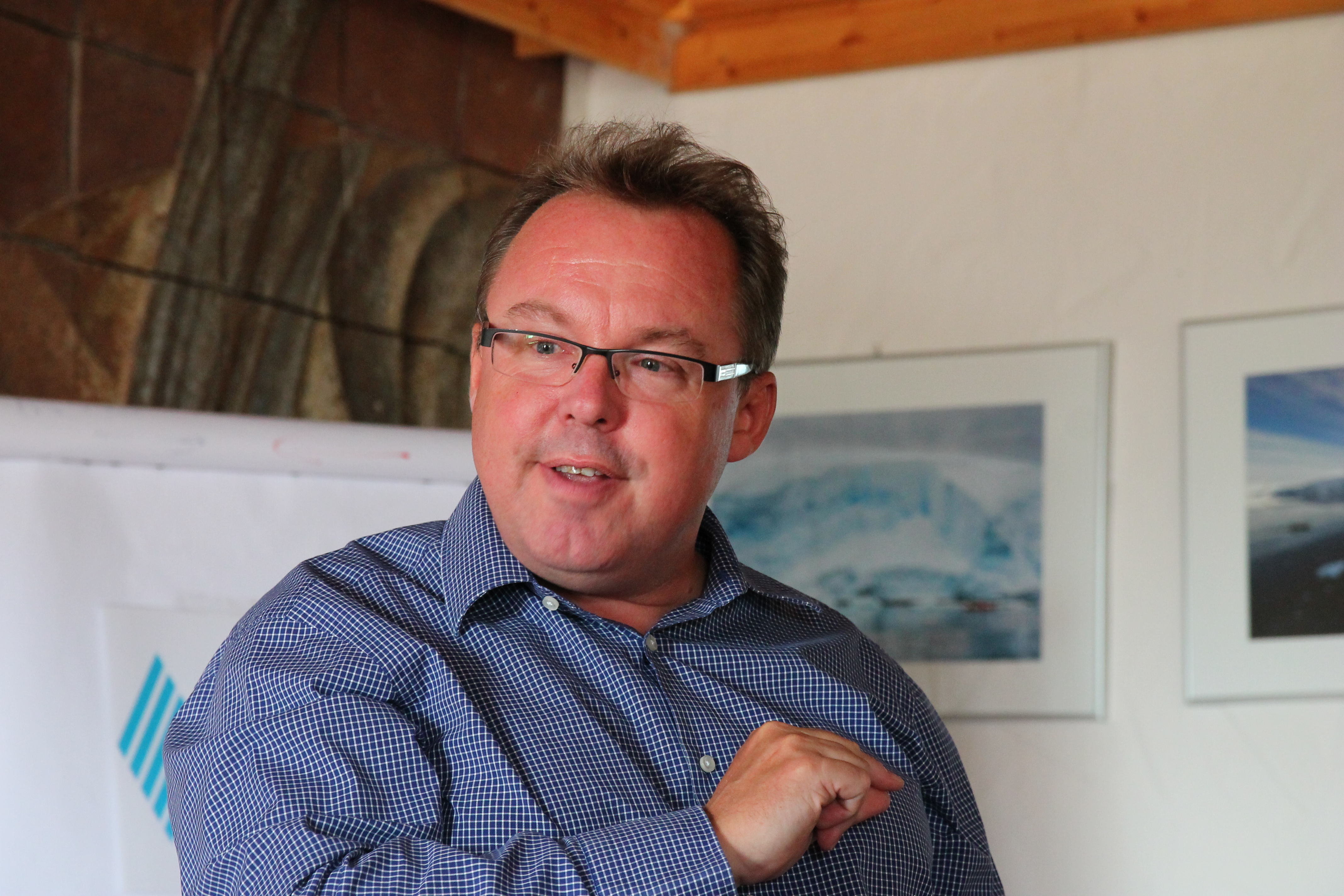 Martin Kovář during presentation taken at Summer school of Občanský institut (Citizen institute), Erlebachova bouda (Erlebach's chalet), Špindlerův Mlýn, Czech Republic